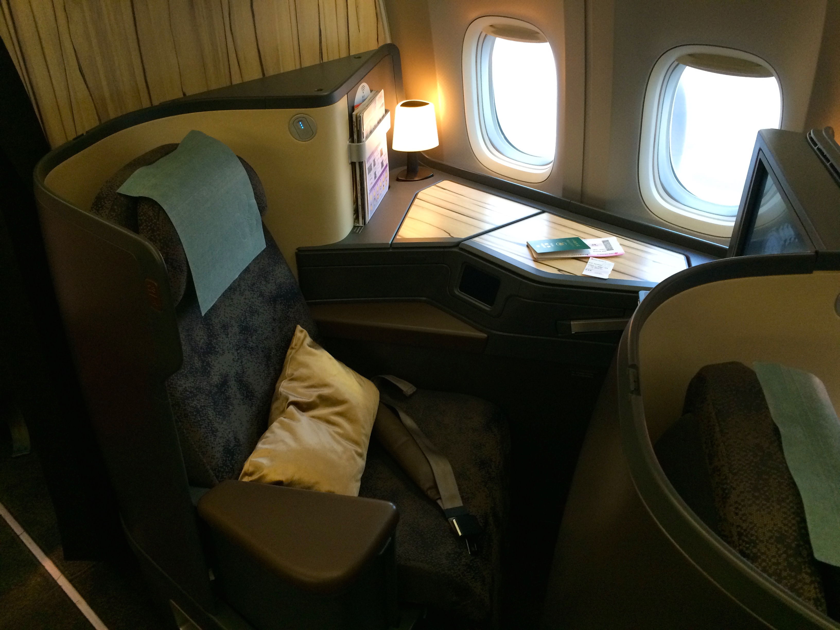 China Airlines Boeing 777-300ER Premium Business Class